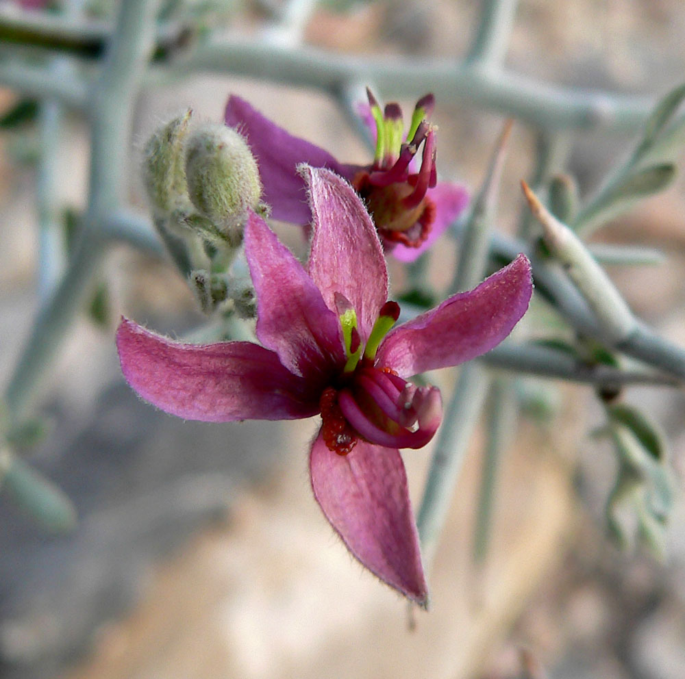 Krameria grayi at upper end of Moapa Valley off Warm Springs Road, southern Nevada